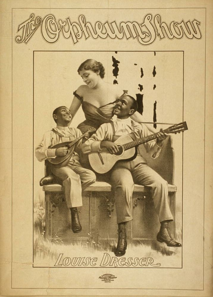 Advertising poster for Louise Dresser, in The Orpheum Show.